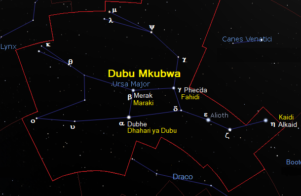 Constellation Ursa Major as seen from Lamu - Kenya, Swahili labelled, close view Kiswahili: Kundinyota Dubu Mkubwa (Ursa Major) jinsi inavyoonekana kutoka Lamu - Kenya, majina kwa Kiswahili (ndogo)